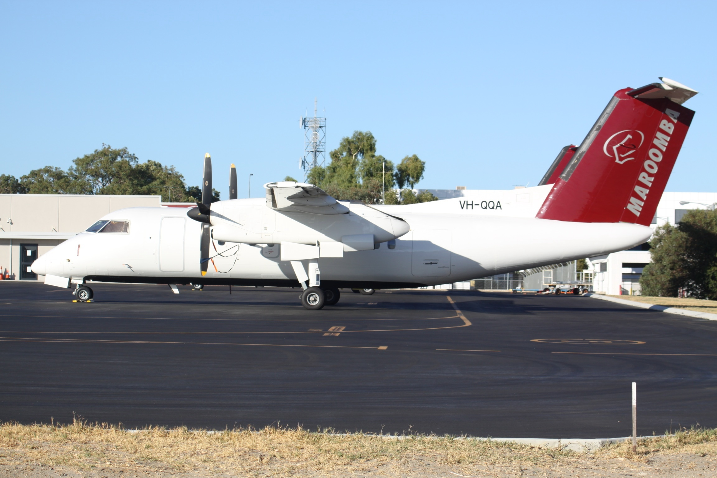 At Perth